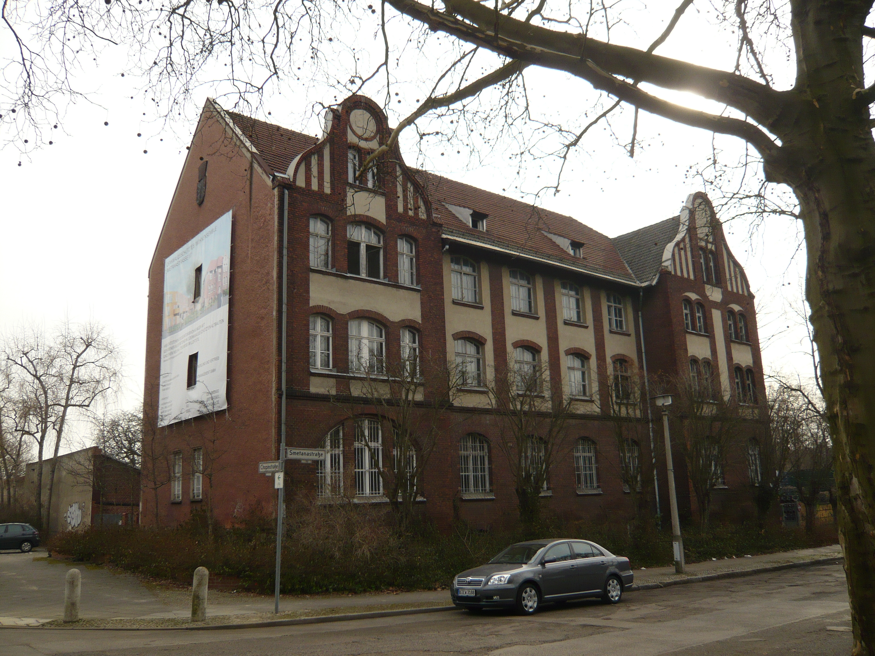 Former Jewish Workers' Home Smetanastrasse 53, Berlin-Weissensee, Germany